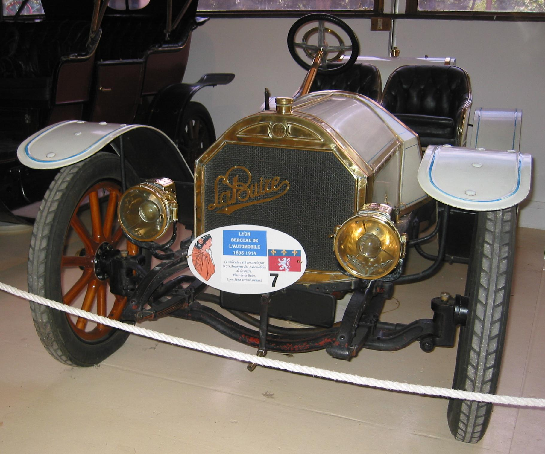 La Buire 1905 (Country of origin: France)